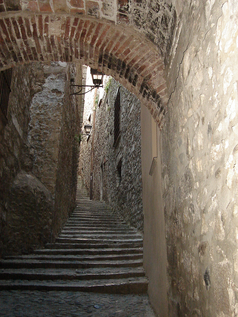 A narrow laneway with stairs in the Jewish Quarter, Gerona, Spain.